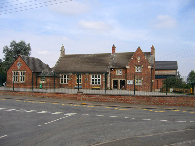 St Gilbert of Sempringham C of E Primary School, Pointon, Lincs. on West Road, dating from 1863.